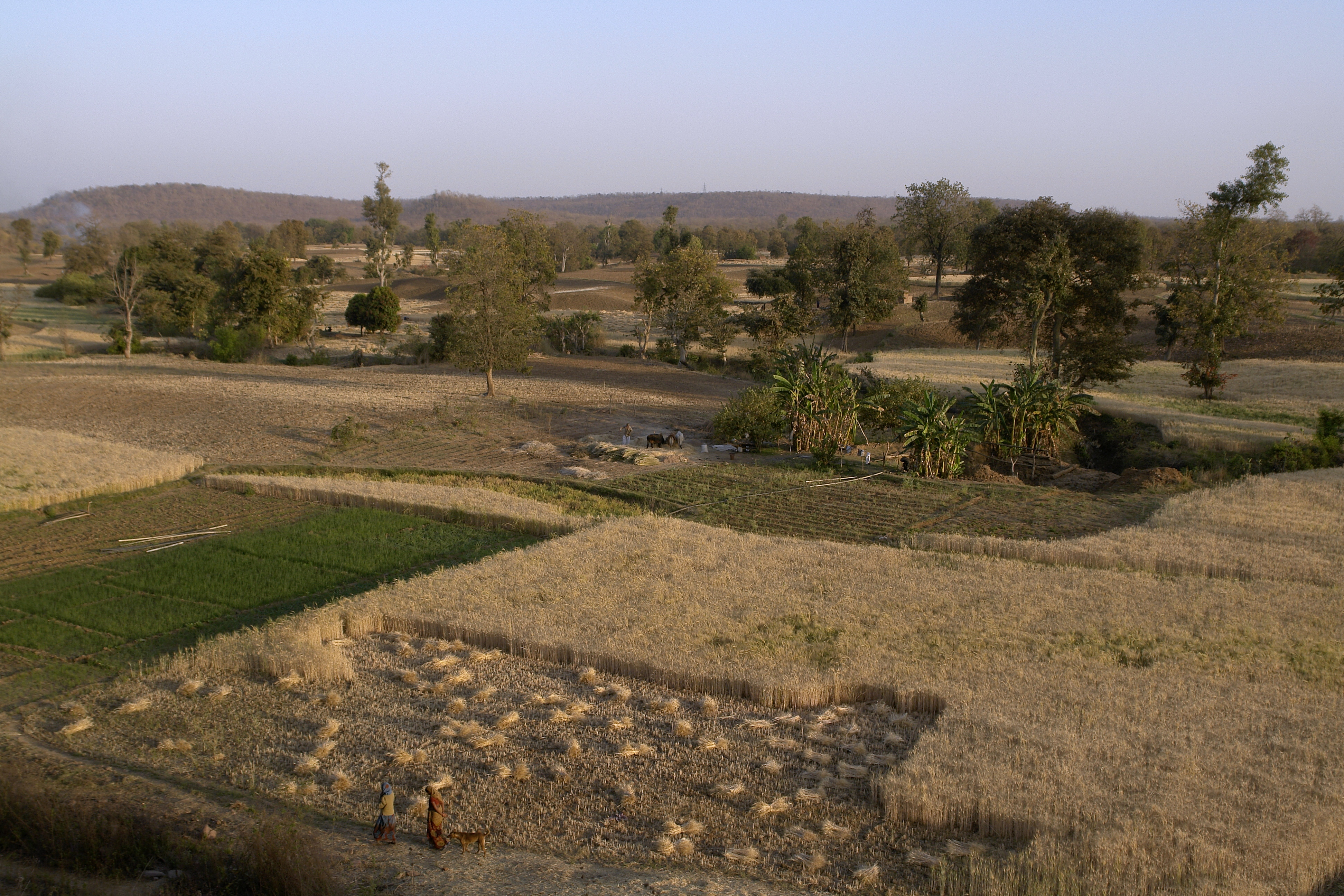 Vinekakho village, Raisen district, Madhya Pradesh, India.